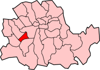 Map of the Metropolitan borough of Chelsea, former County of London.